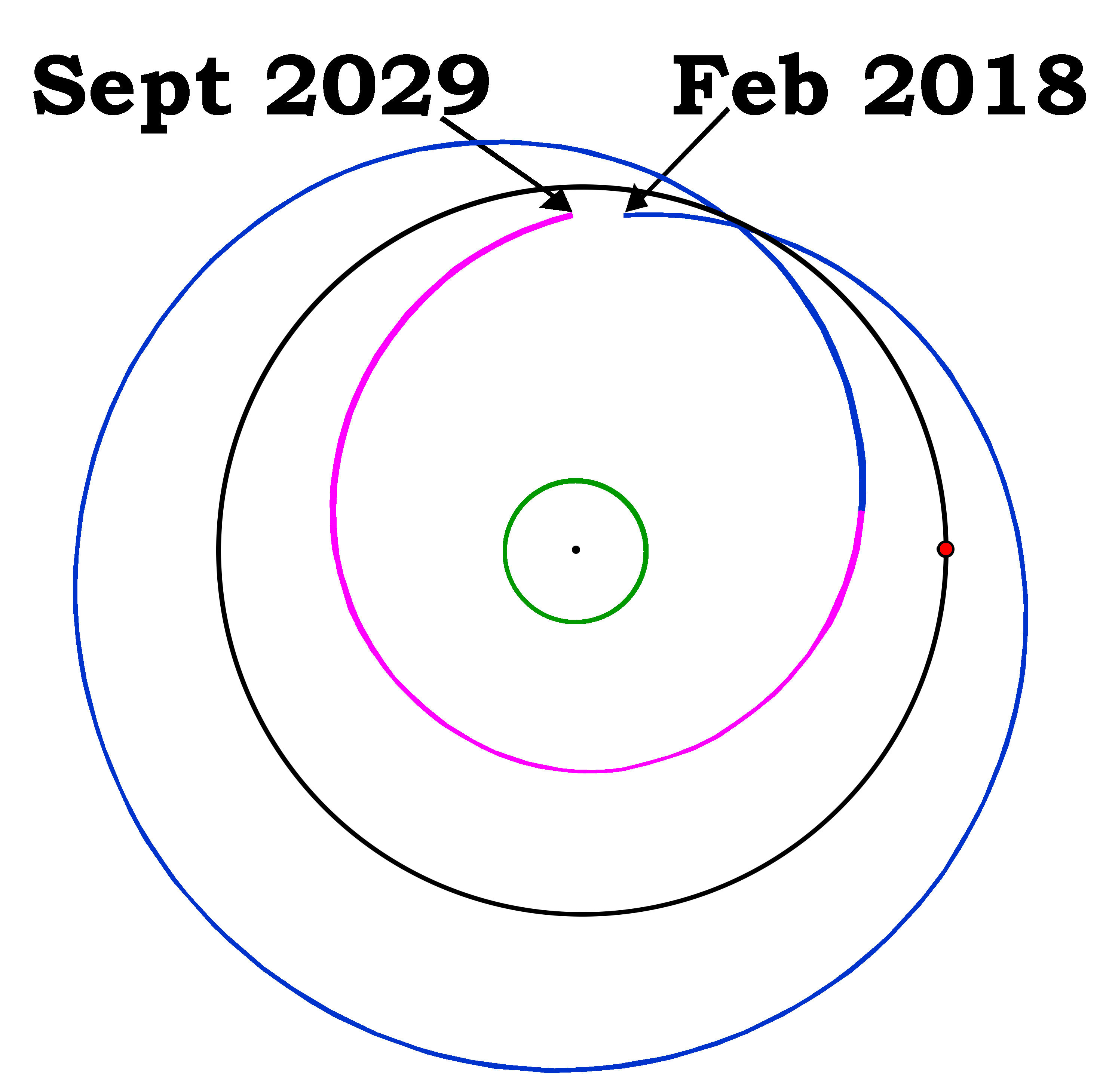 This diagram shows one complete orbit of asteroid 2015 BZ509 in a rotational frame, where Jupiter is stationary. The view is from the north looking south onto the Solar System. The dot in the middle is the Sun, the green circle is the orbit of Earth, the black circle is the orbit of Jupiter, and Jupiter is the red circle (not to scale). The orbit of 2015 BZ509 is shown in blue when it is above the plane of the orbit of Jupiter, and it is shown in magenta when it is below the plane of the orbit of Jupiter. Due to perturbations each orbit takes a slightly different path, so the end points of one orbit do not match.[1]